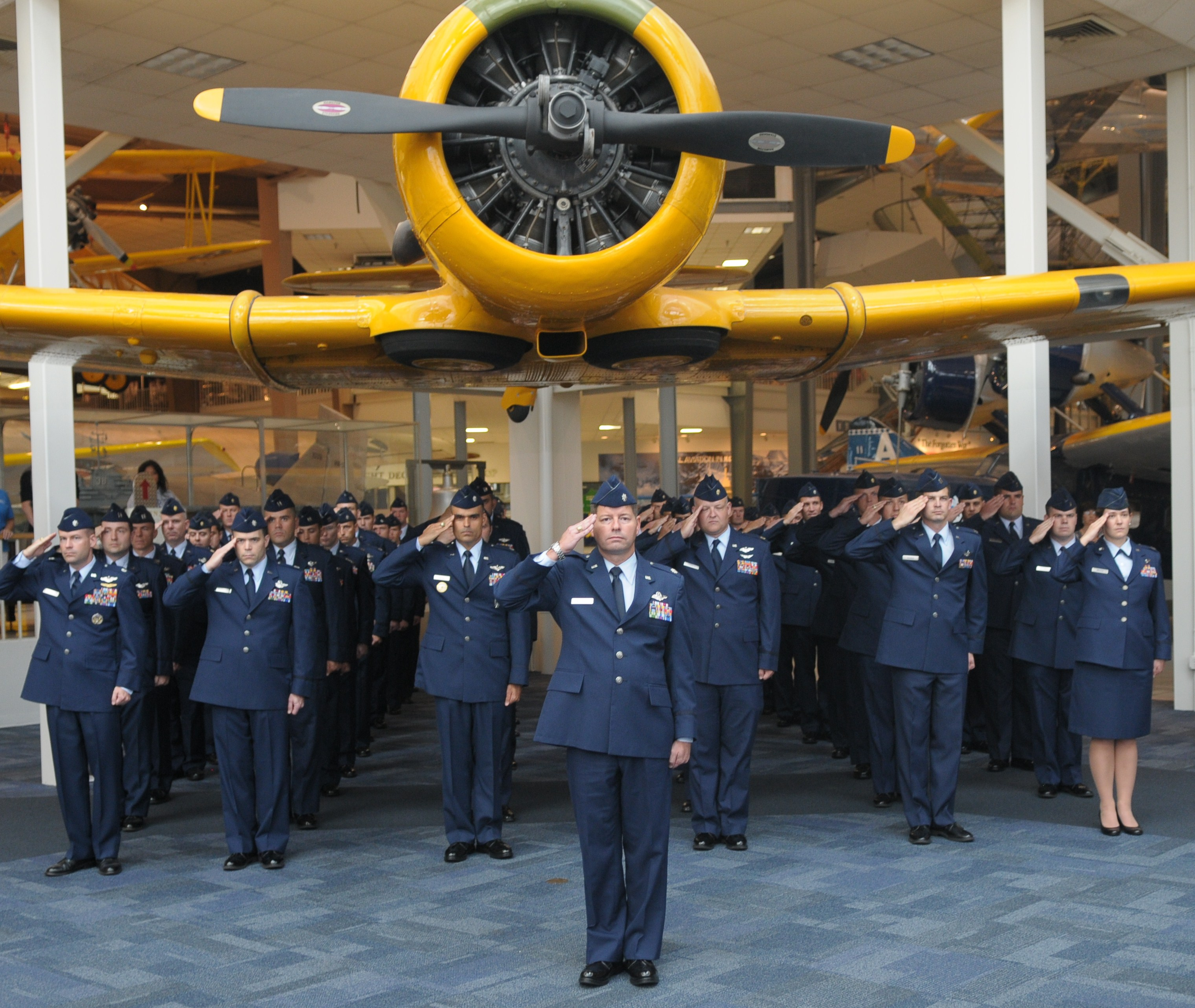 Led by Lt. Col. Jason Werchan, 479th Flying Training Group deputy commander, the members of the troop formation render their salutes during the playing of the National Anthem at the activation ceremony of the 479th FTG October 2, 2009 in the National Museum of Naval Aviation at NAS Pensacola, Fla. (U.S. Air Force photo by Joel Martinez)